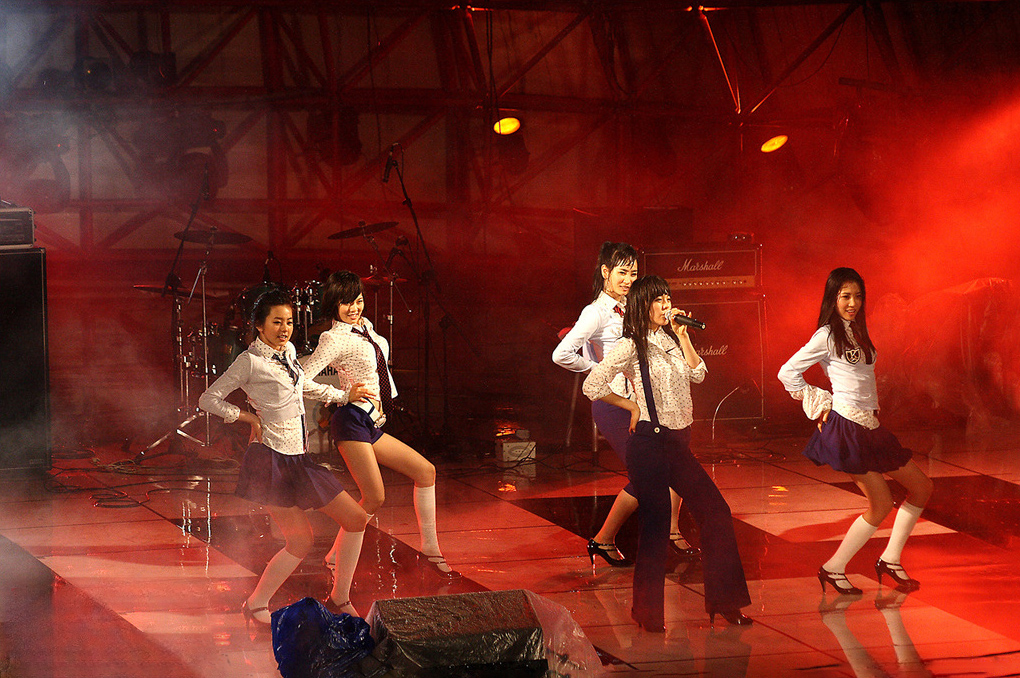 The Wonder Girls at the Daedongje, Hanyang University Festival.